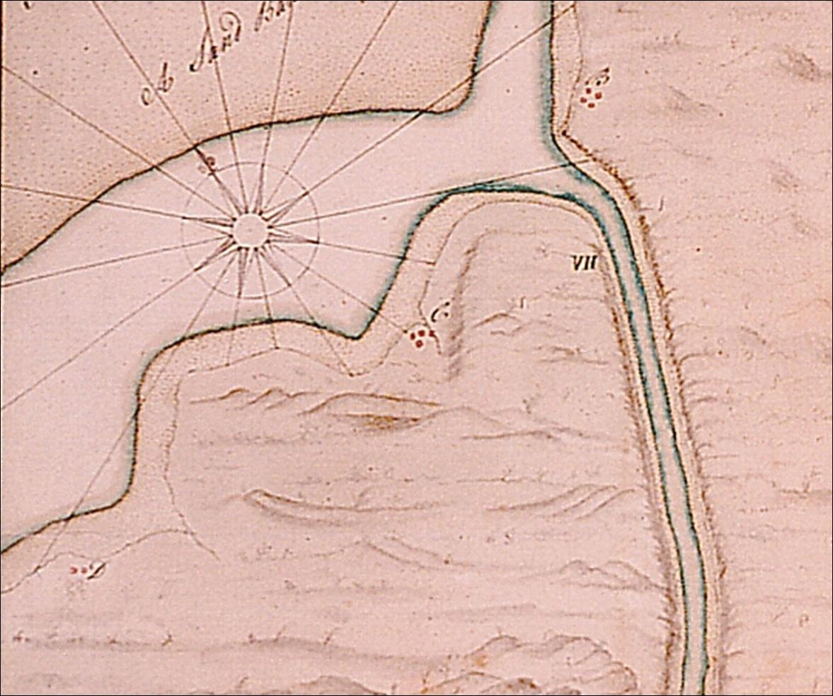 Shubenacadie River,Nova Scotia Map, by Captain Matthew Floyer,_1755